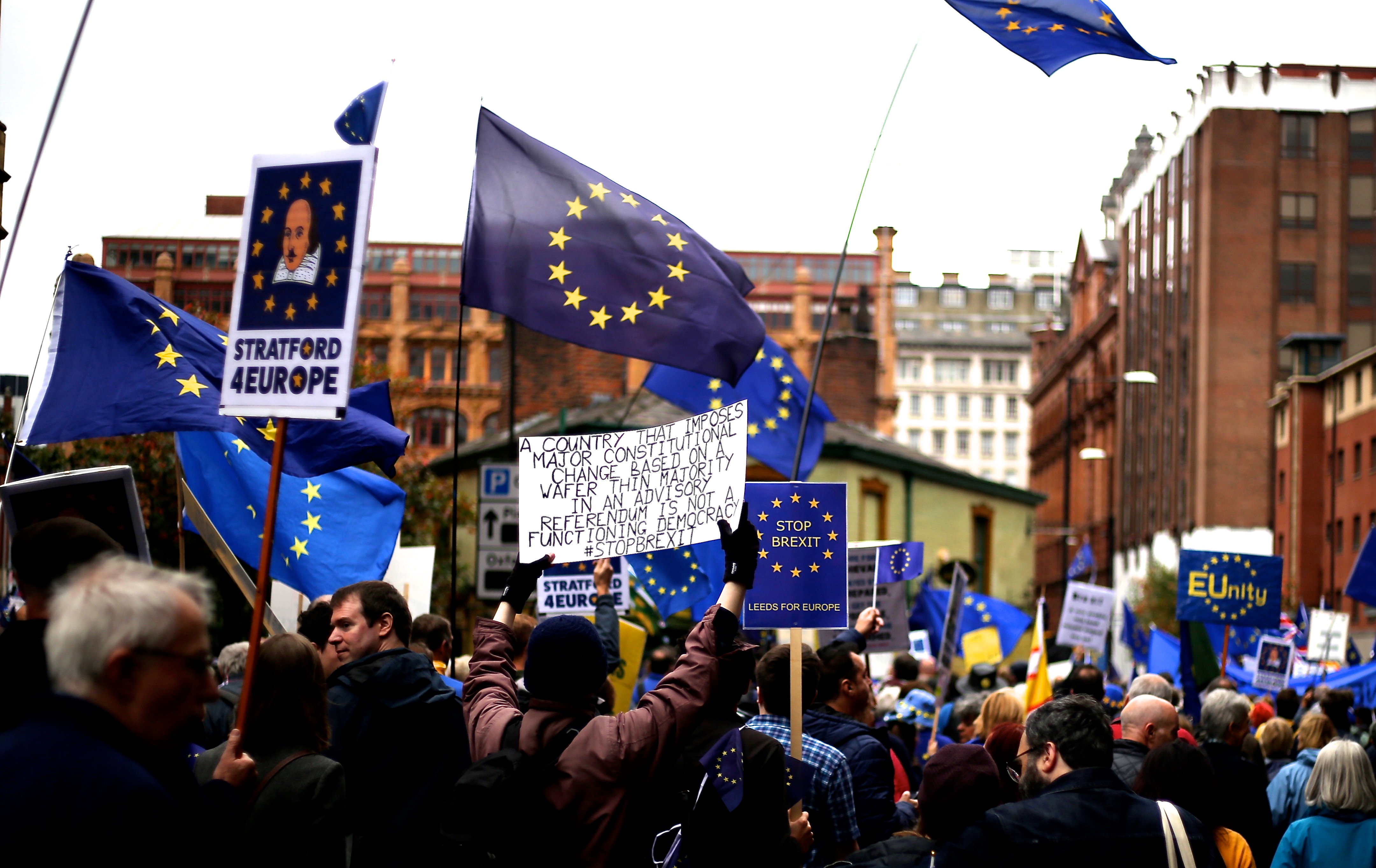 Manchester Brexit Conservative Party European Union EU pro-EU